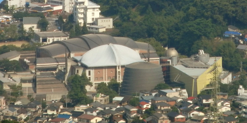 Nagasaki prefectural gymnasium